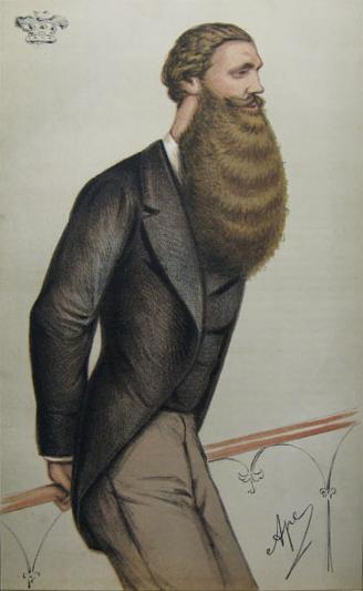 Caricature by Carlo Pellegrini of Edward Bootle-Wilbraham, 2nd Lord Skelmersdale, later 1st Earl of Lathom. Caption reads "A Conservative whip".